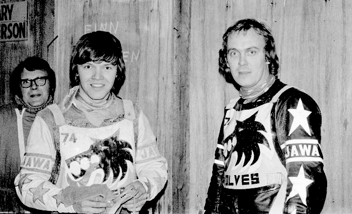 Popular Wolves, Ole Olsen and Finn Thomsen